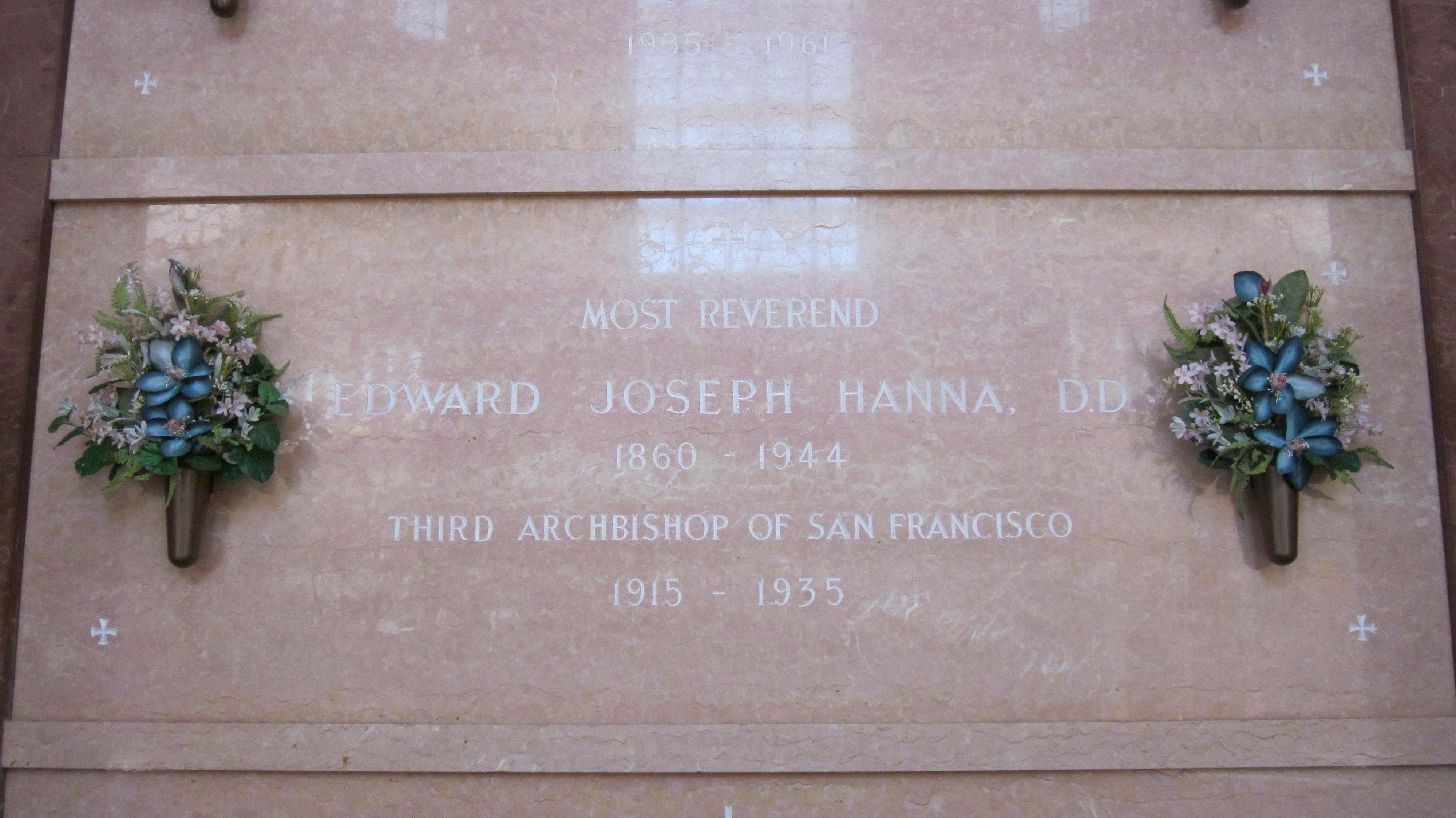 The vault of Archbishop Edward Hanna in the Holy Cross Mausoleum at Holy Cross Cemetery in Colma, California.